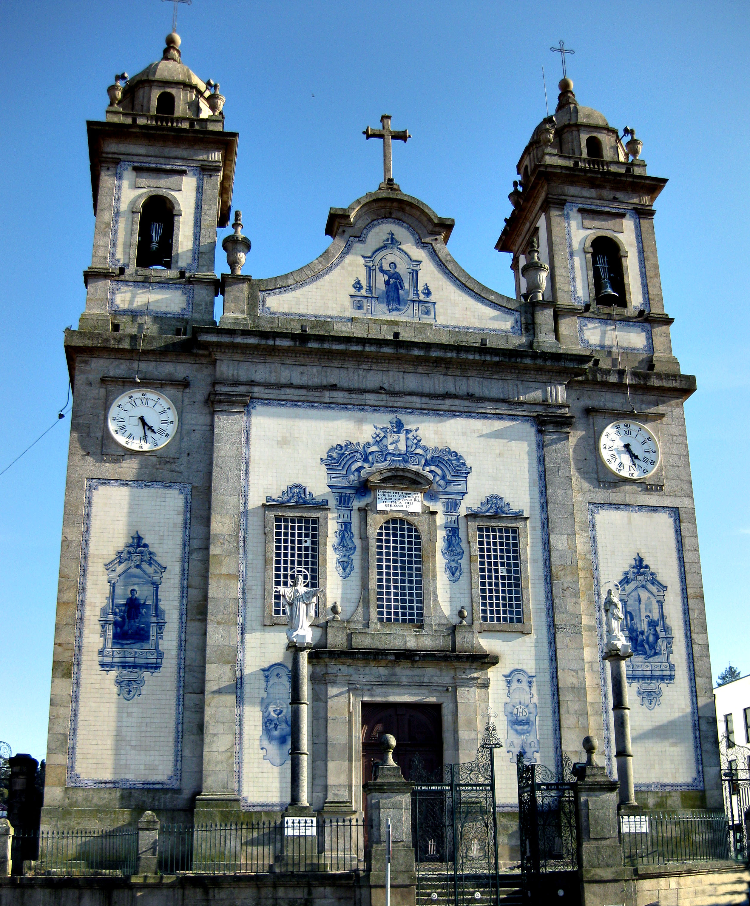 Church of Valongo - Valongo - Portugal